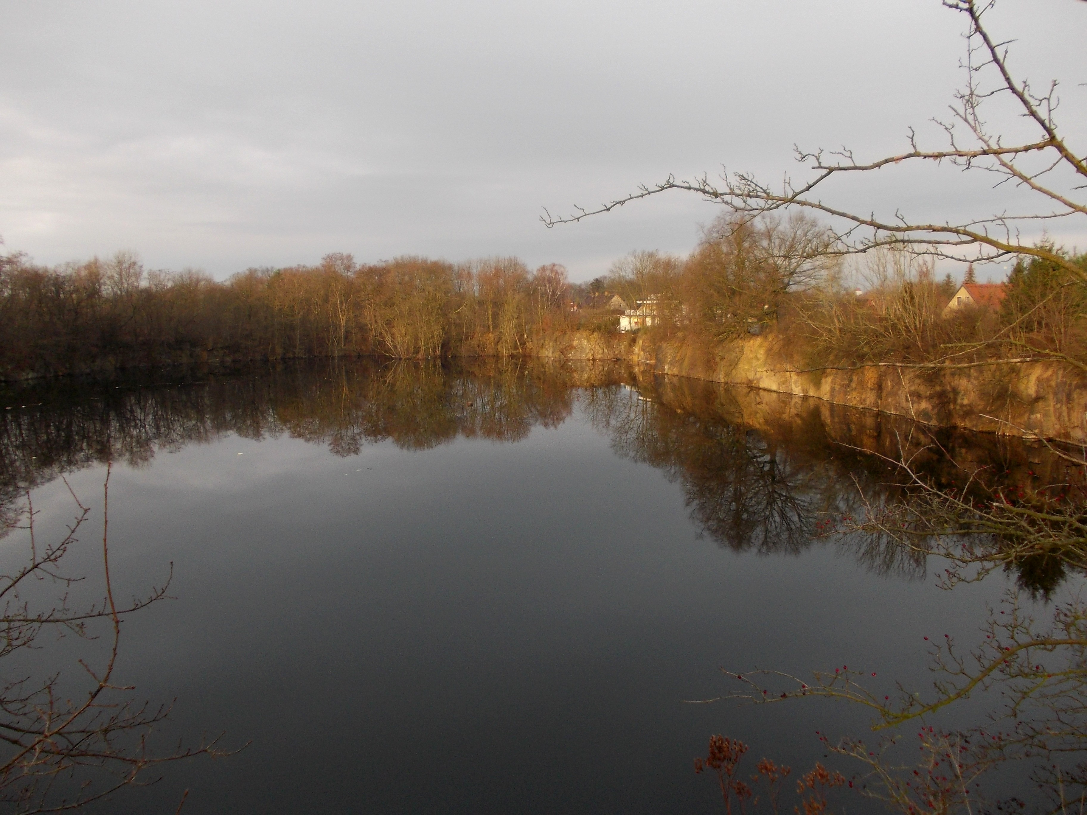 Spittelbruch, a former quarry in Kleinsteinberg (Brandis, Leipzig district, Saxony)